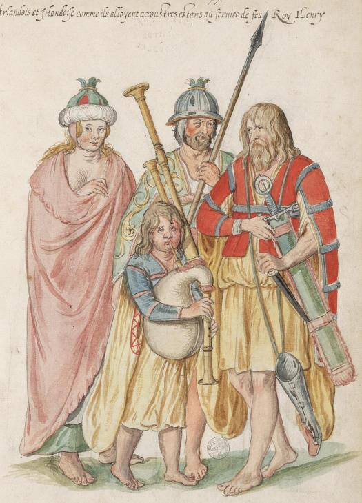 Dutch Water Color Painting ‘Irish as they stand accoutred being at the service of the late King Henry’